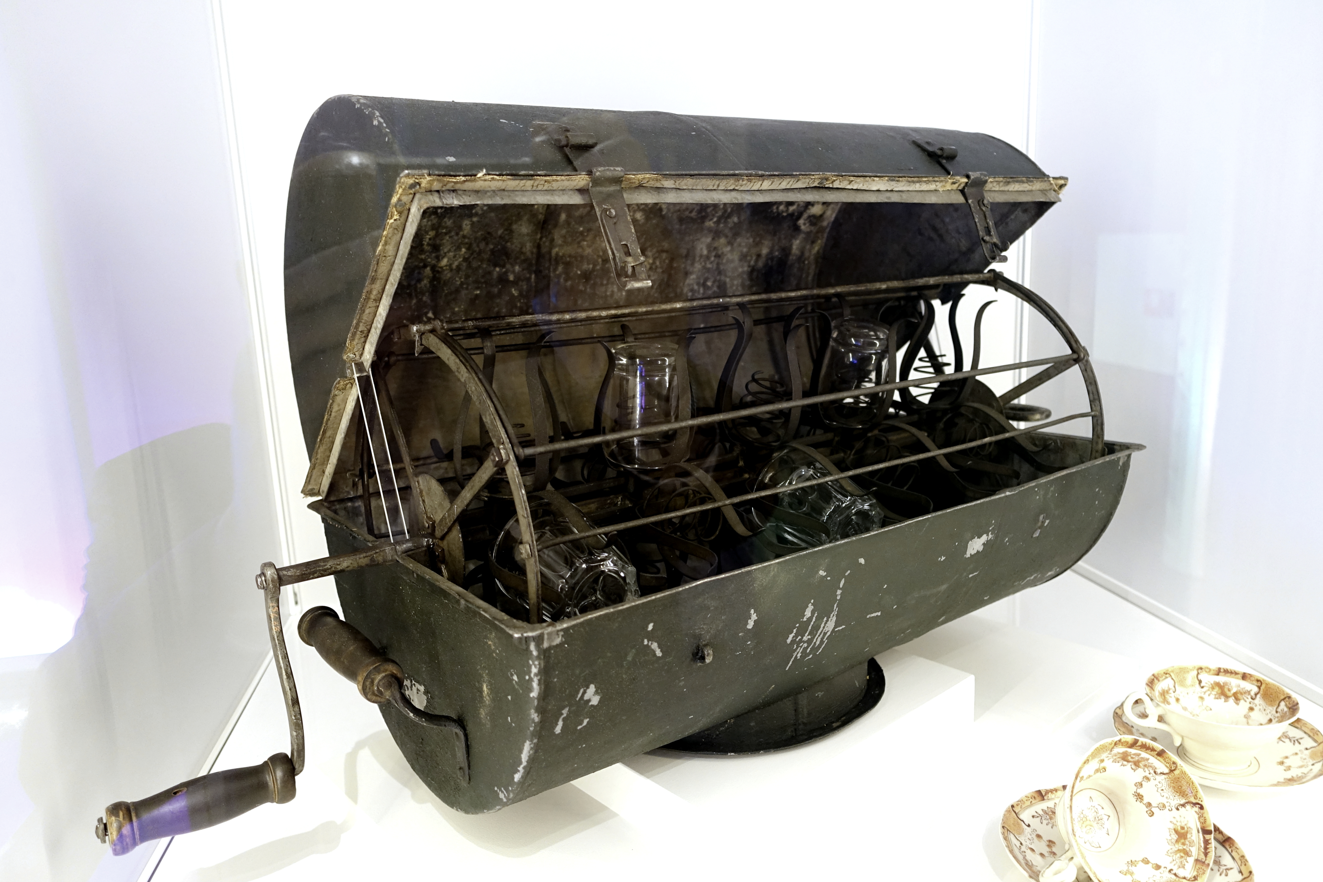 Exhibit in the Tekniska museet, Stockholm, Sweden. This work is old enough so that it is in the public domain.